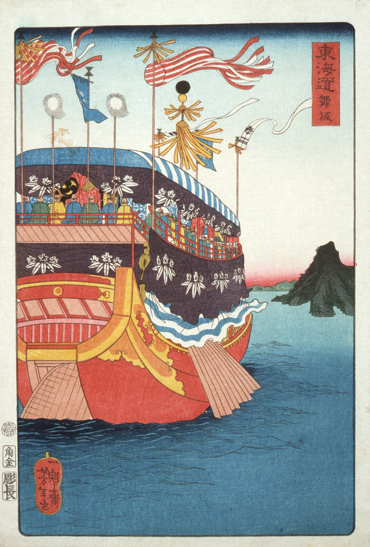 Japan, 1863, 4th month Series: Famous Places on the Tokaido Prints; woodcuts Color woodblock print Herbert R. Cole Collection (M.84.31.108) Japanese Art